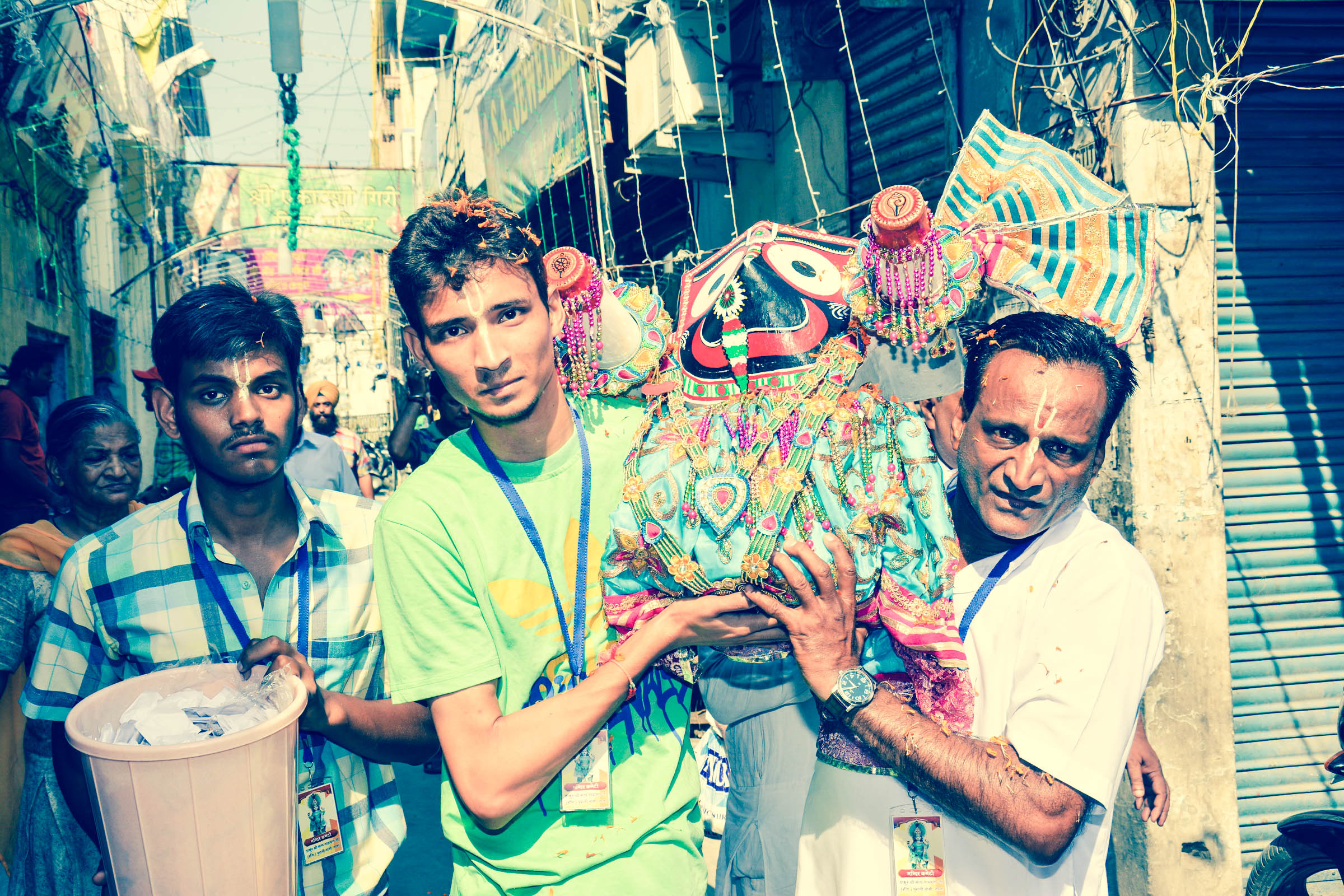 Hari Kishore Joshi holding Lord Jagannath Ji .